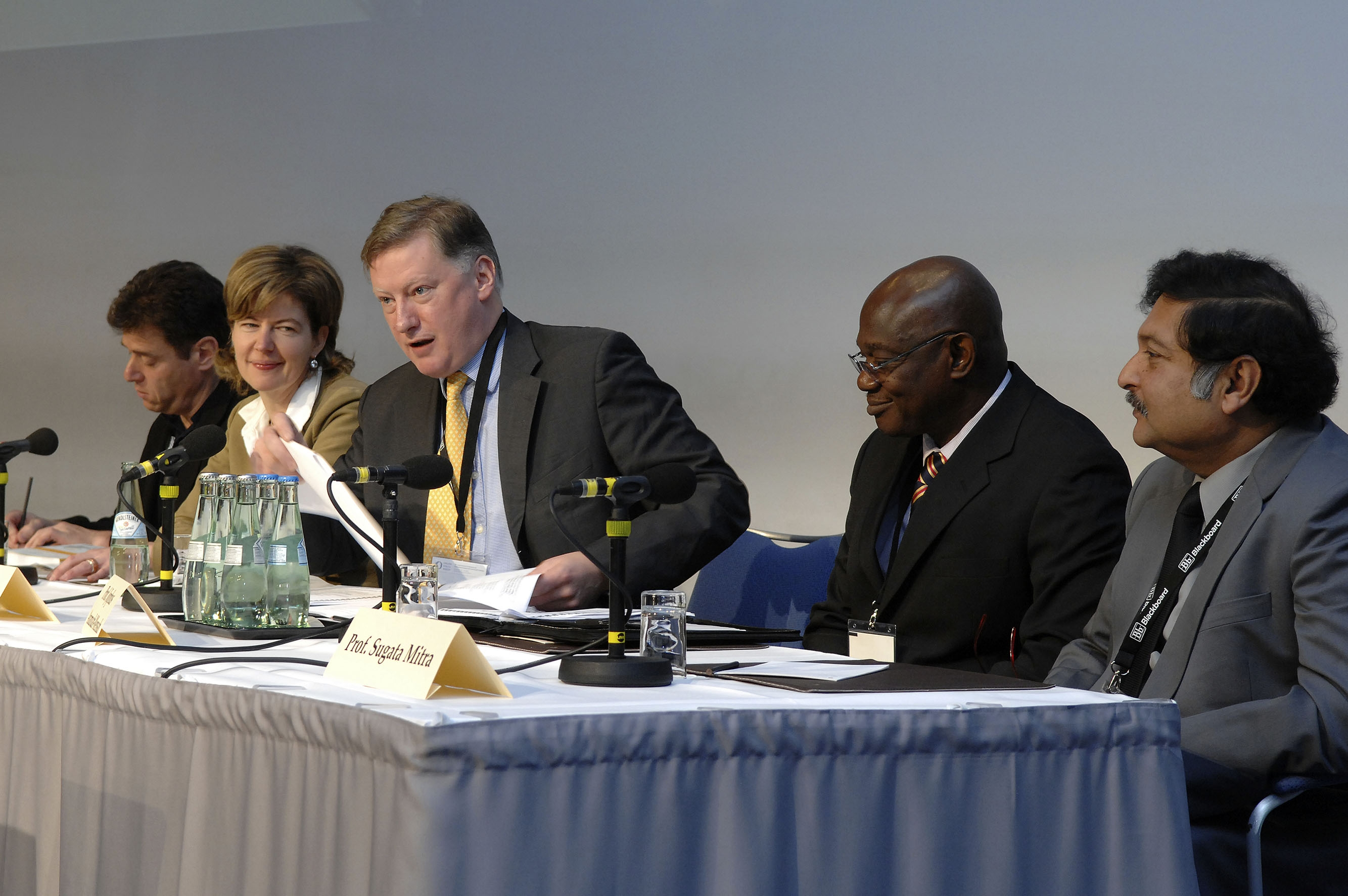 Online Educa Berlin 2007 - Opening Plenary, November 29, 2007, Andrew Keen, Patricia Ceysens, Harold Elletson, Jophus Anamuah-Mensah and Sugata Mitra